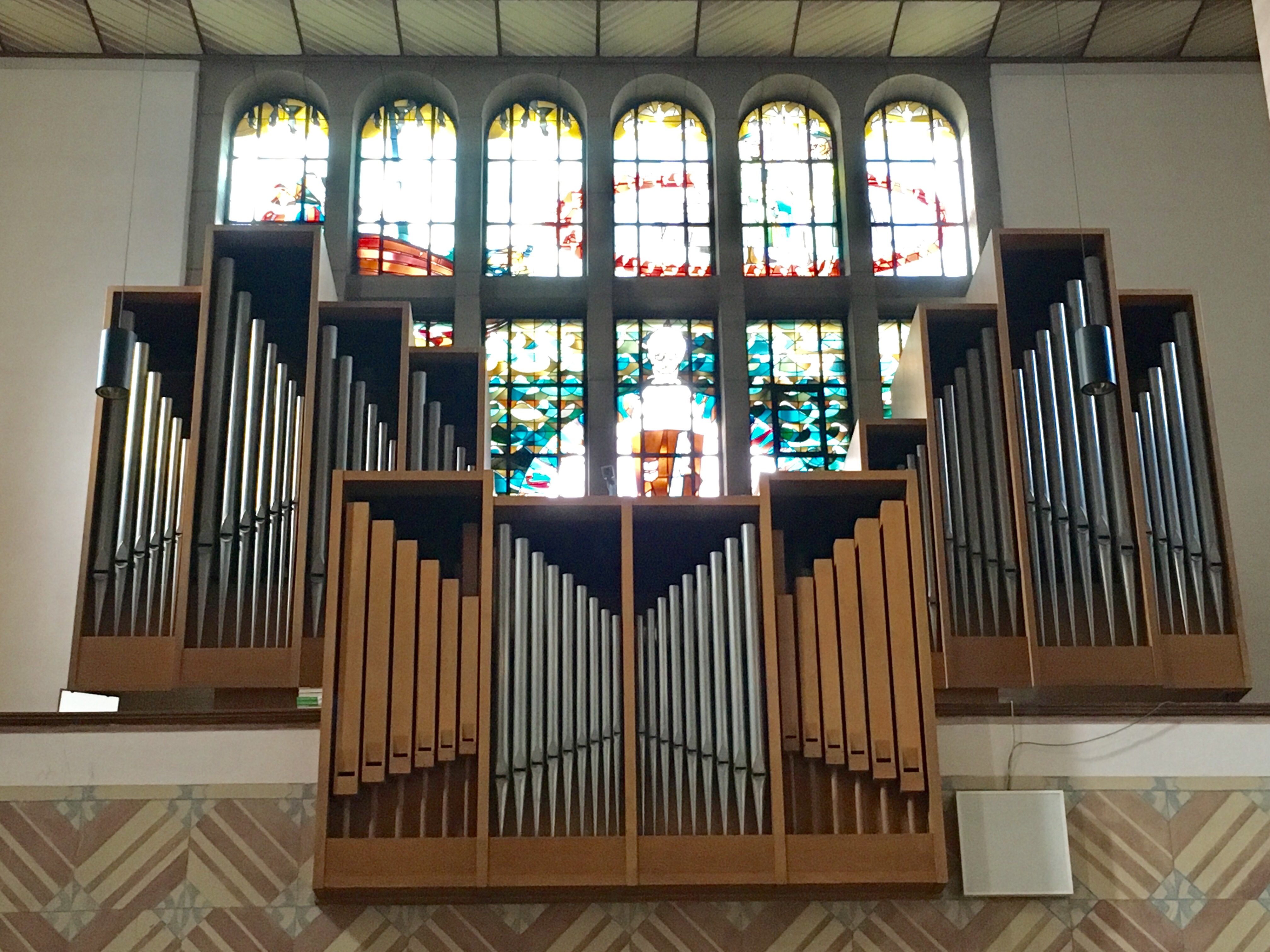 Walcker organ St. Clemens Oberhausen-Sterkrade 2